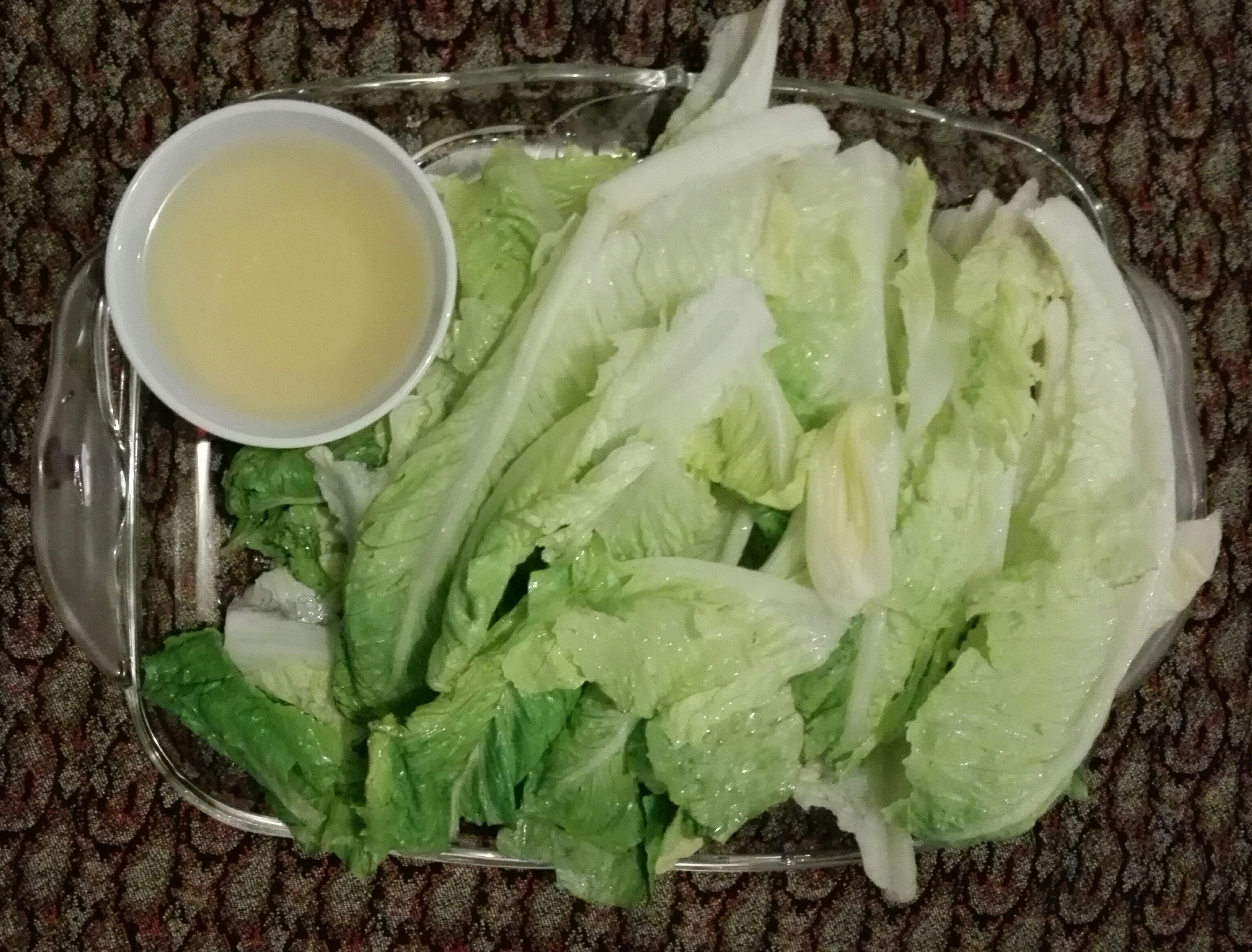 Kahoo sekanjebin (lettuce and sekanjebin), an Iranian snack, which is usually served on Sizdahbedar